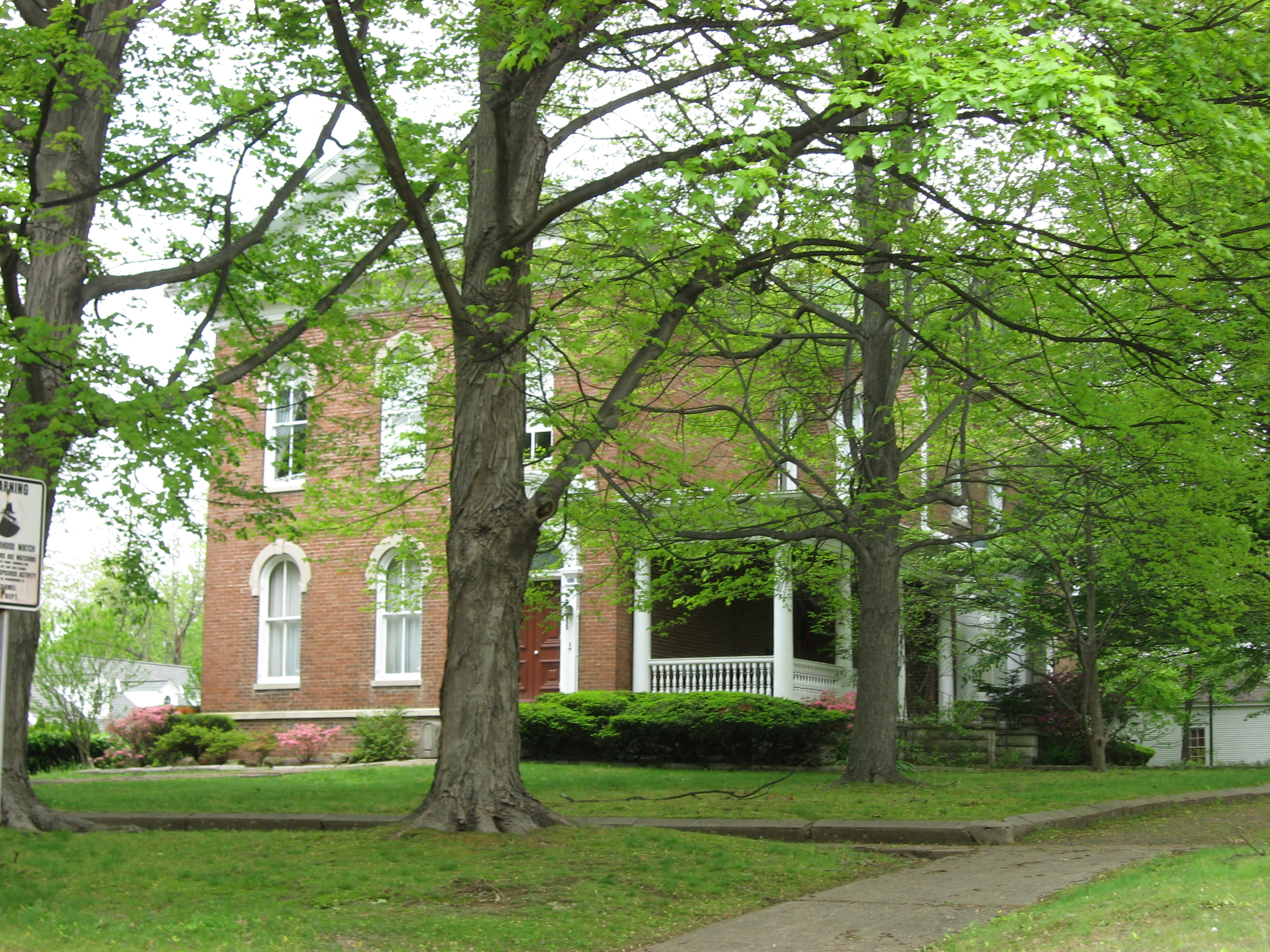 Front and southern side of the Beall-Orr House, located at 503 Cherry Street in Mount Carmel, Illinois, United States. Built in 1870, it is listed on the National Register of Historic Places.